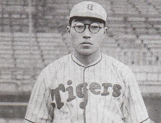 A professional baseball player from Japan, Kenjiro Matsuki.